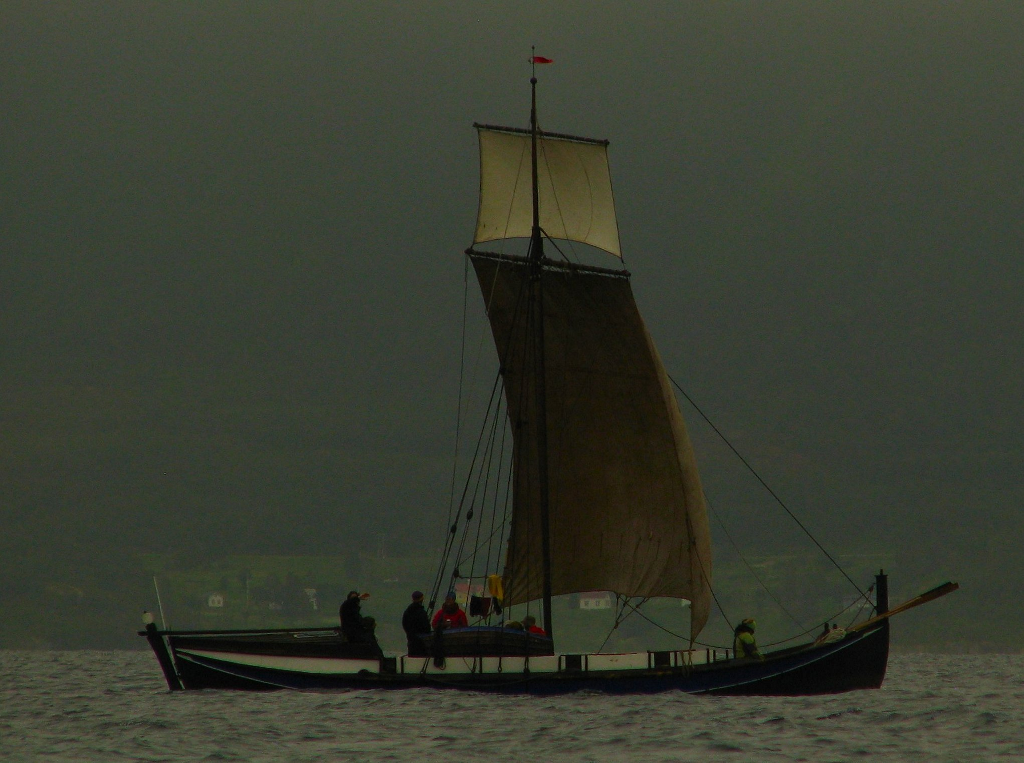 Braute, a fembøring of Åfjord type, near Sortland in 2014.